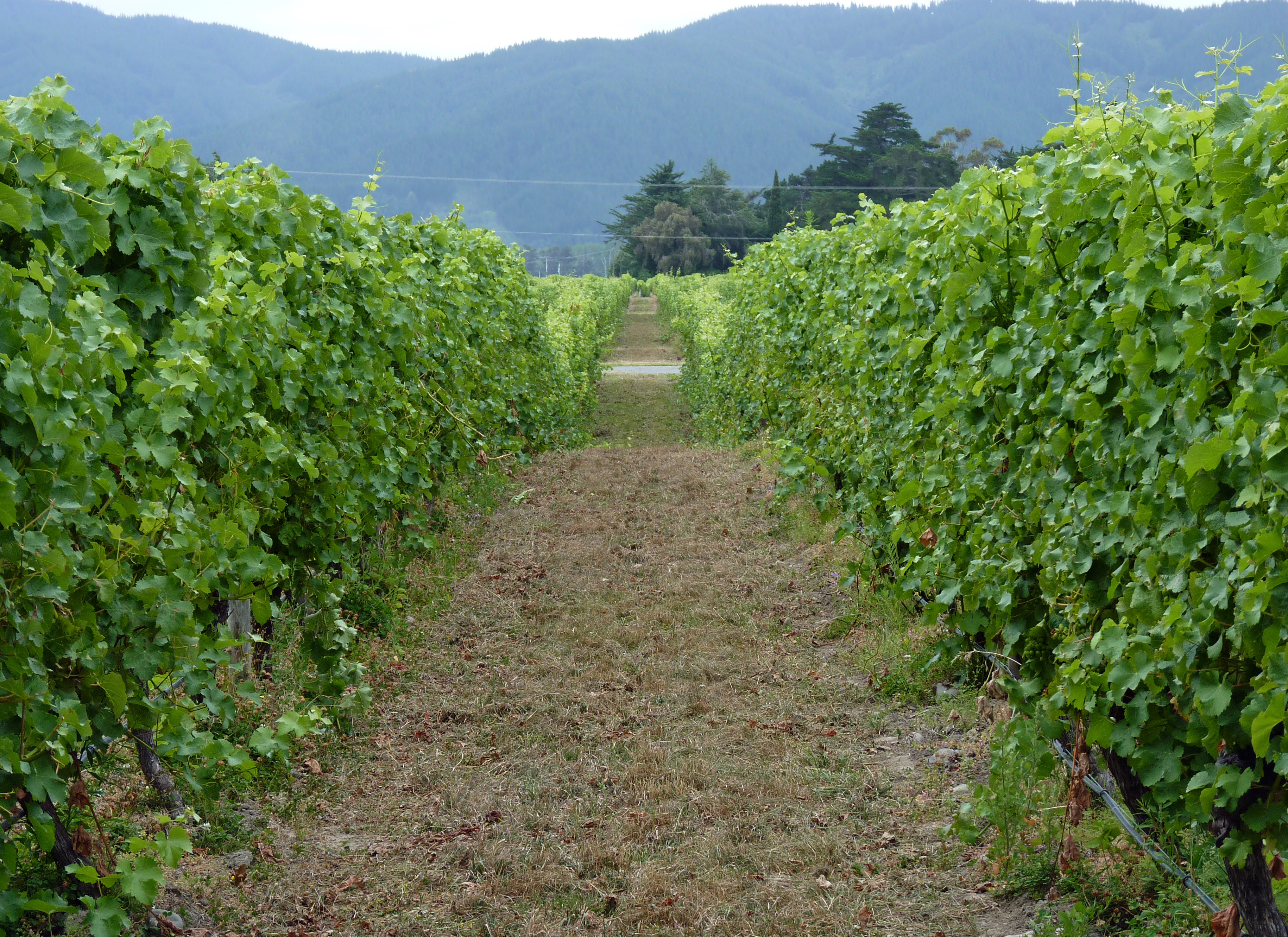 Marlborough